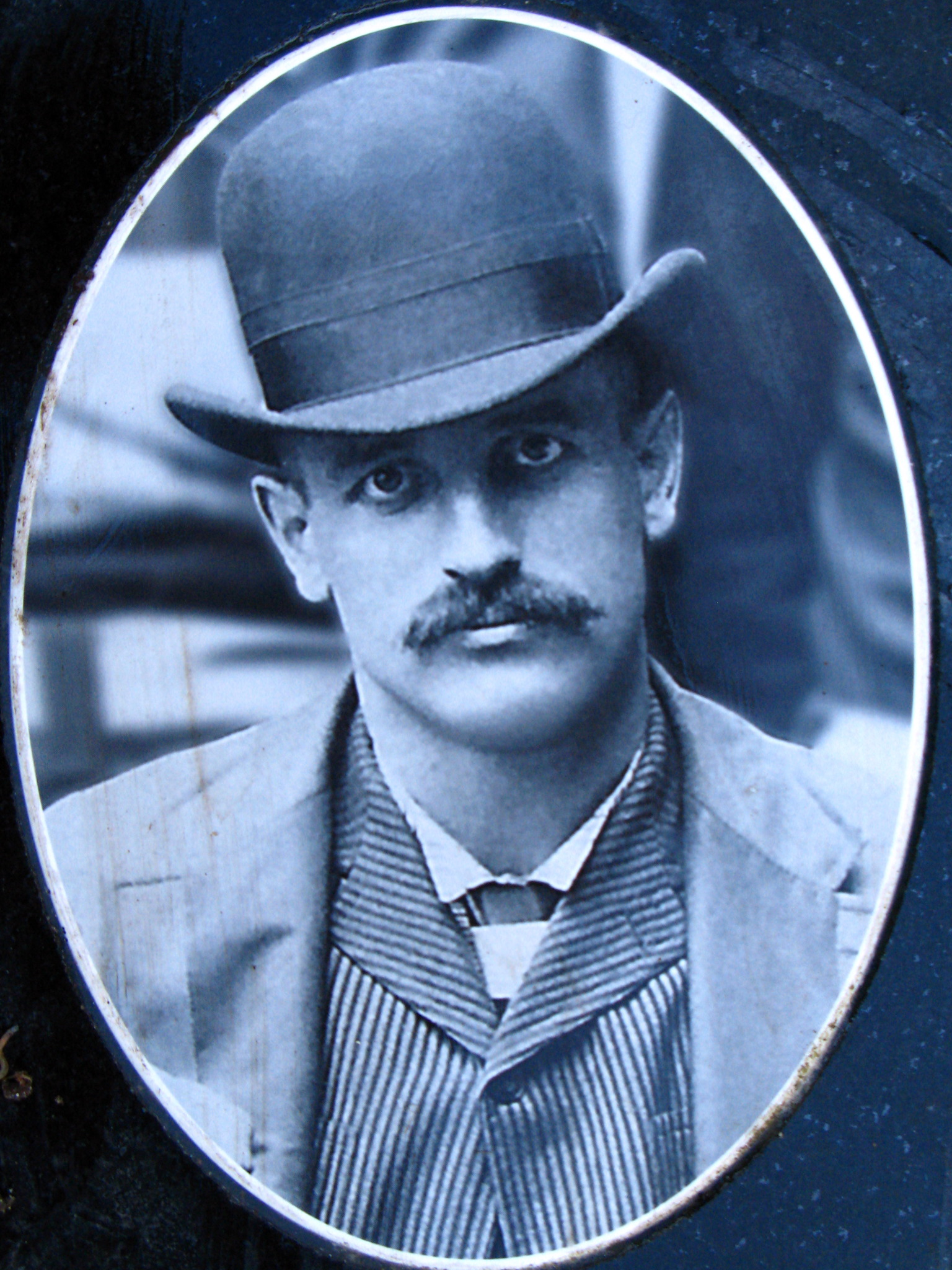 Gravestone photoceramic for John Sloan Barnes